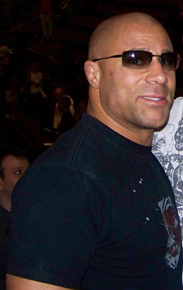 Frank Trigg at an MMA event on February 5, 2008.